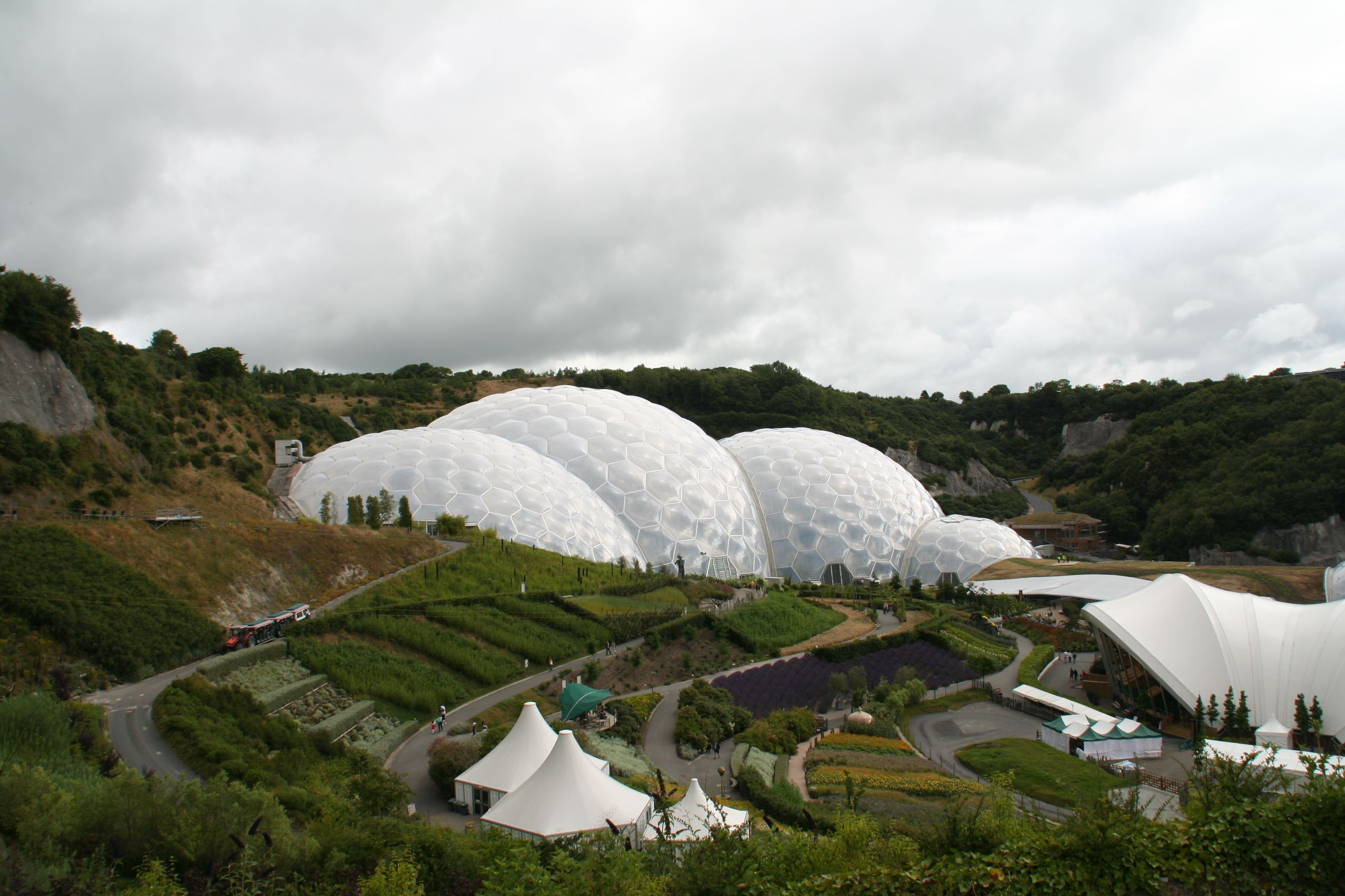 View of big domeKernowek: Vu a krommdo bras